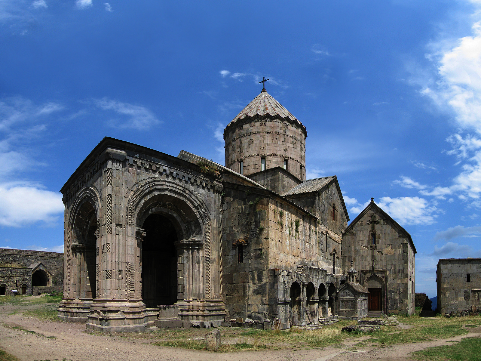 Татевский монастырь, собор Сурб Погос-Петрос (святых Петра и Павла)